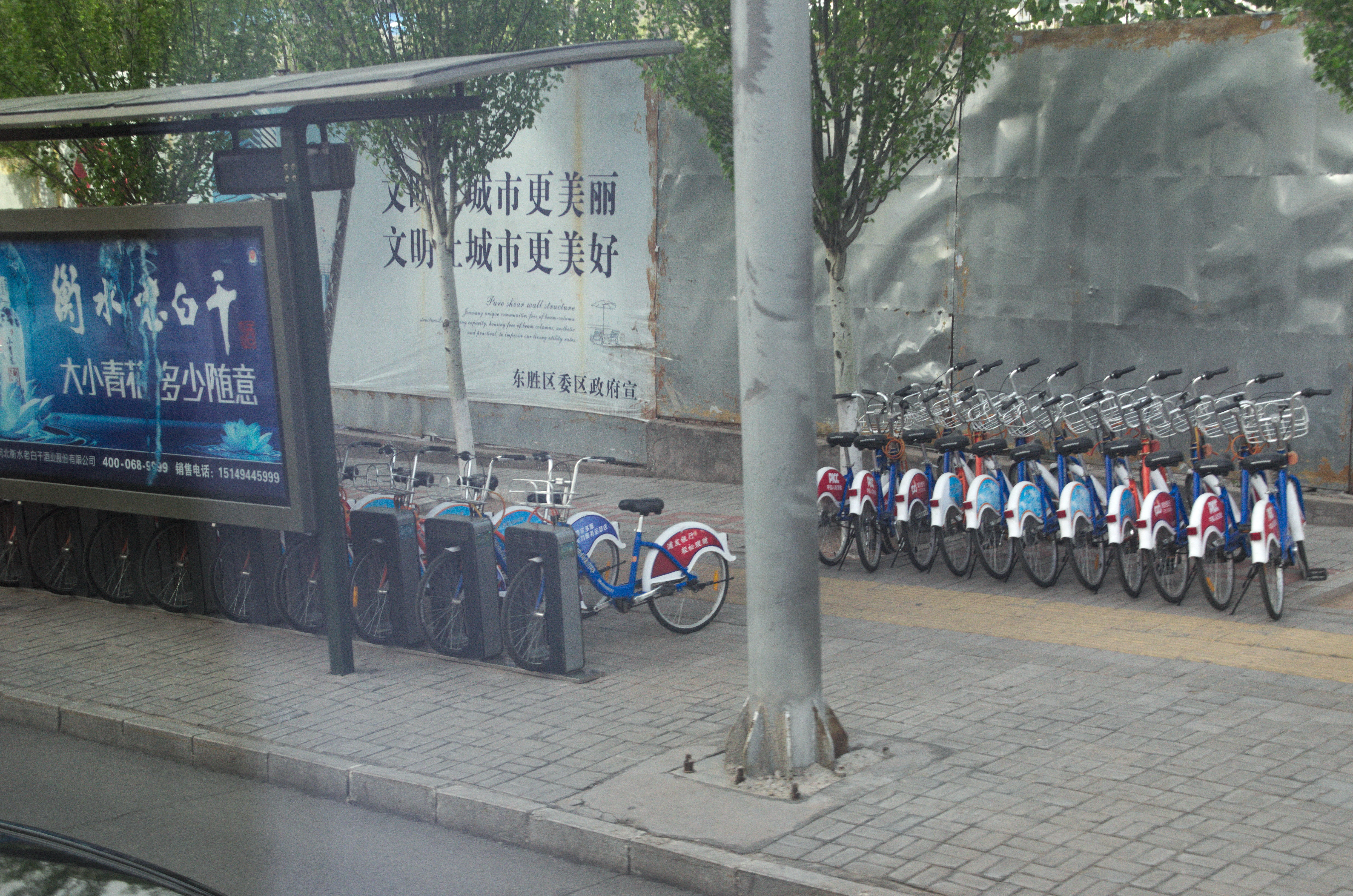 Ordos City Public Bicycle. Inner Mongolia, China.